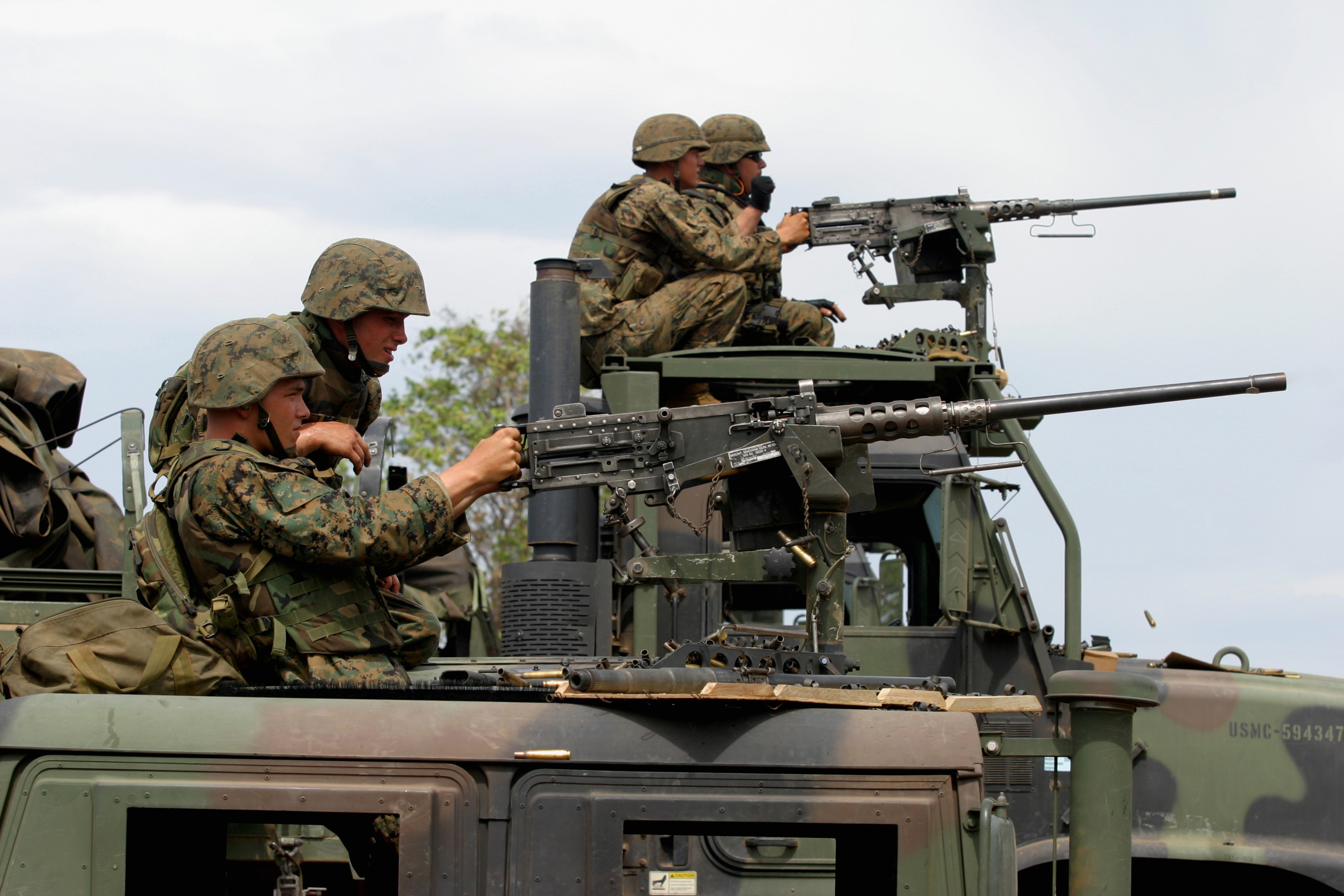 PHRAMAHACHEDSARAJCHAO CAMP, PHLUTALUAN, SATTAHIP DISTRICT, CHONBURI PROVINCE, Thailand — Machine gunners with 12th Marine Regiment, Combined Marine Forces, Cobra Gold fire machine guns from atop of Light Armored Vehicles here May 5. The Marines practiced proper maintenance, loading procedures, and firing with the M2 .50 Caliber Machine Guns, M240G Medium Machine Guns, MK19 40mm Machine Guns, and M249 Light Machine Guns. Photo ID: 20055166230 Submitting Unit: MCB Camp Butler